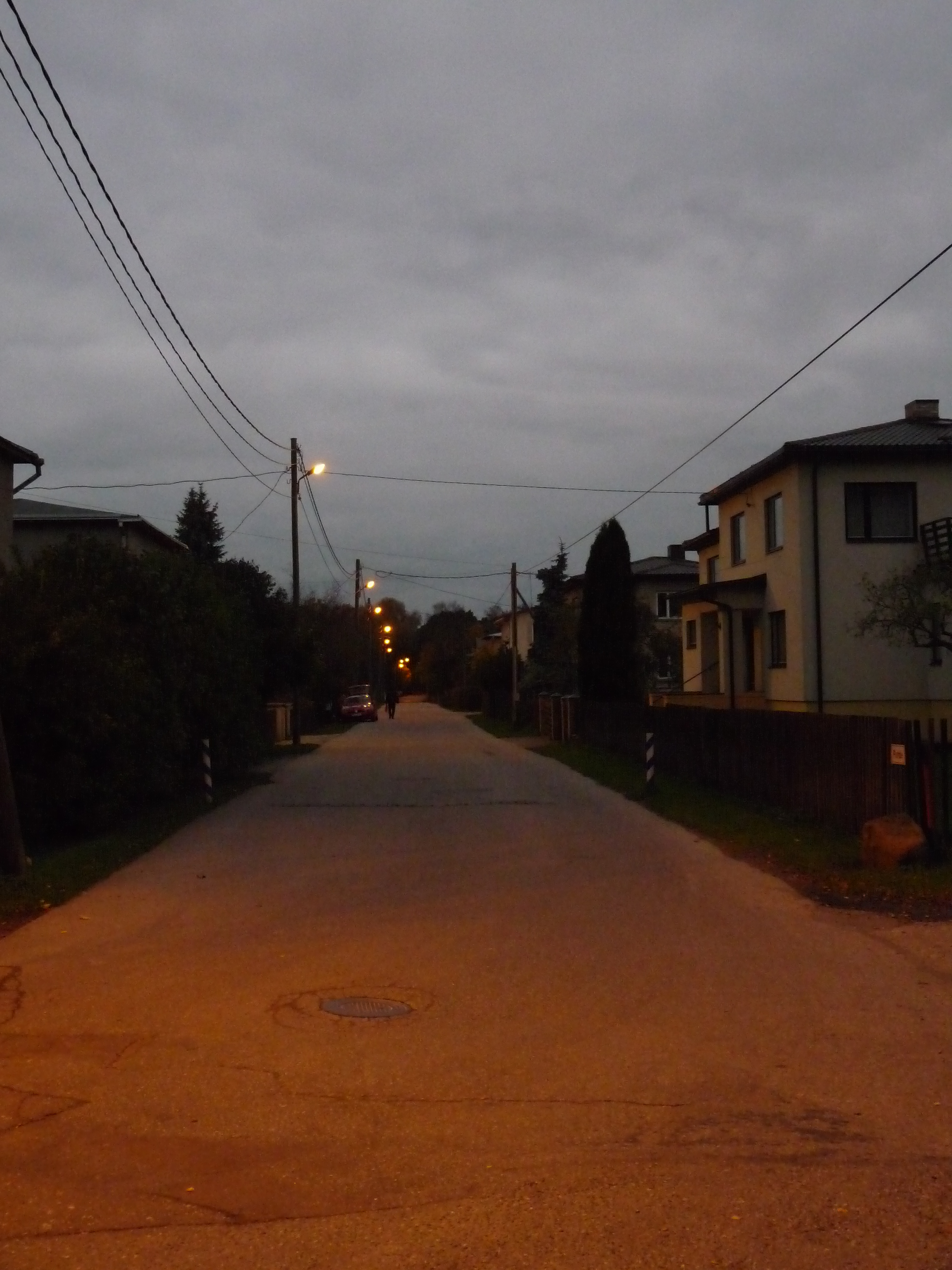 Purde street in Tallinn, Estonia.